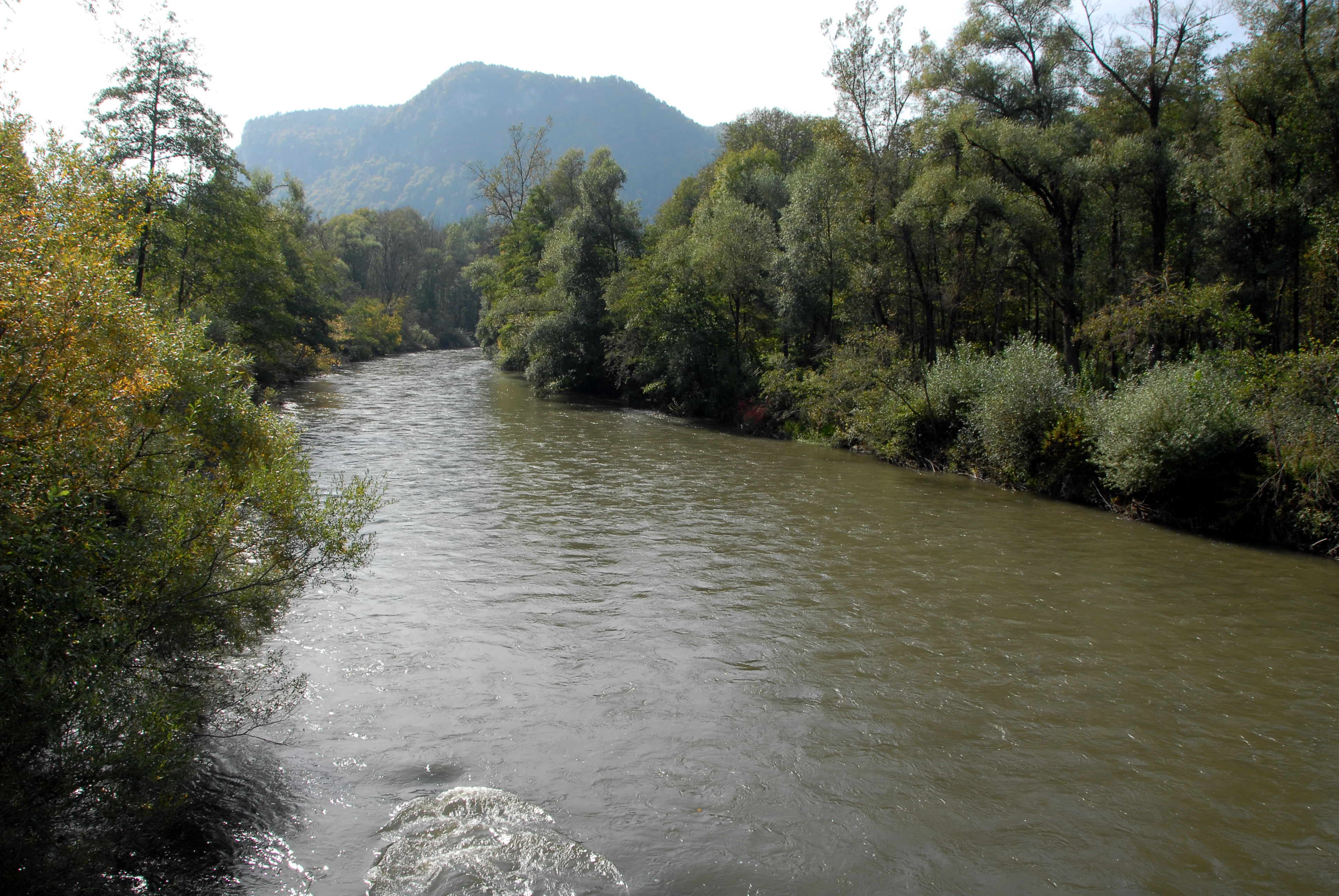 River Gurk near Truttendorf municipality Grafenstein, district Klagenfurt Land, Carinthia / Austria / EU